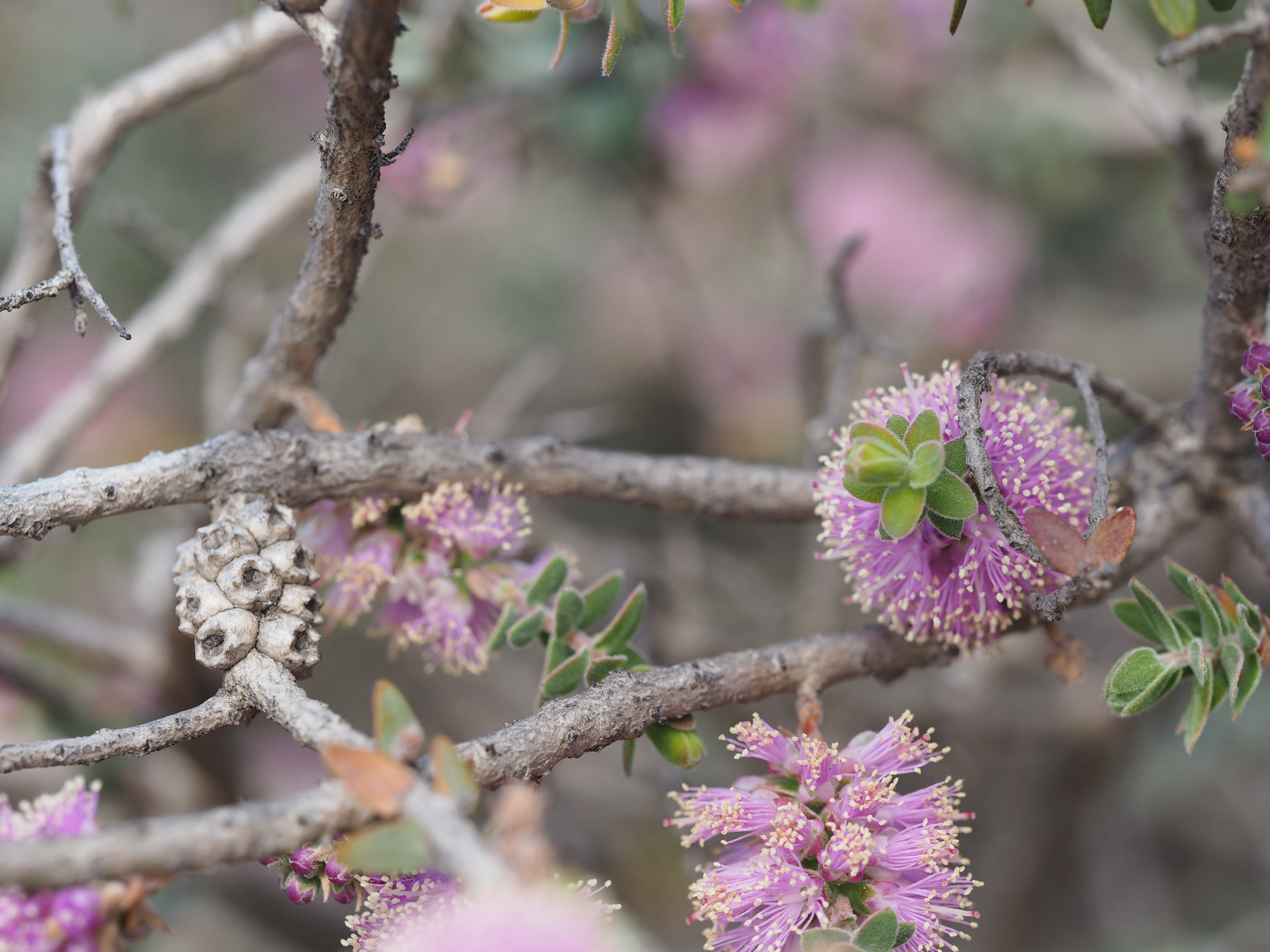 Melaleuca spicigera growing 20 km east of Hyden